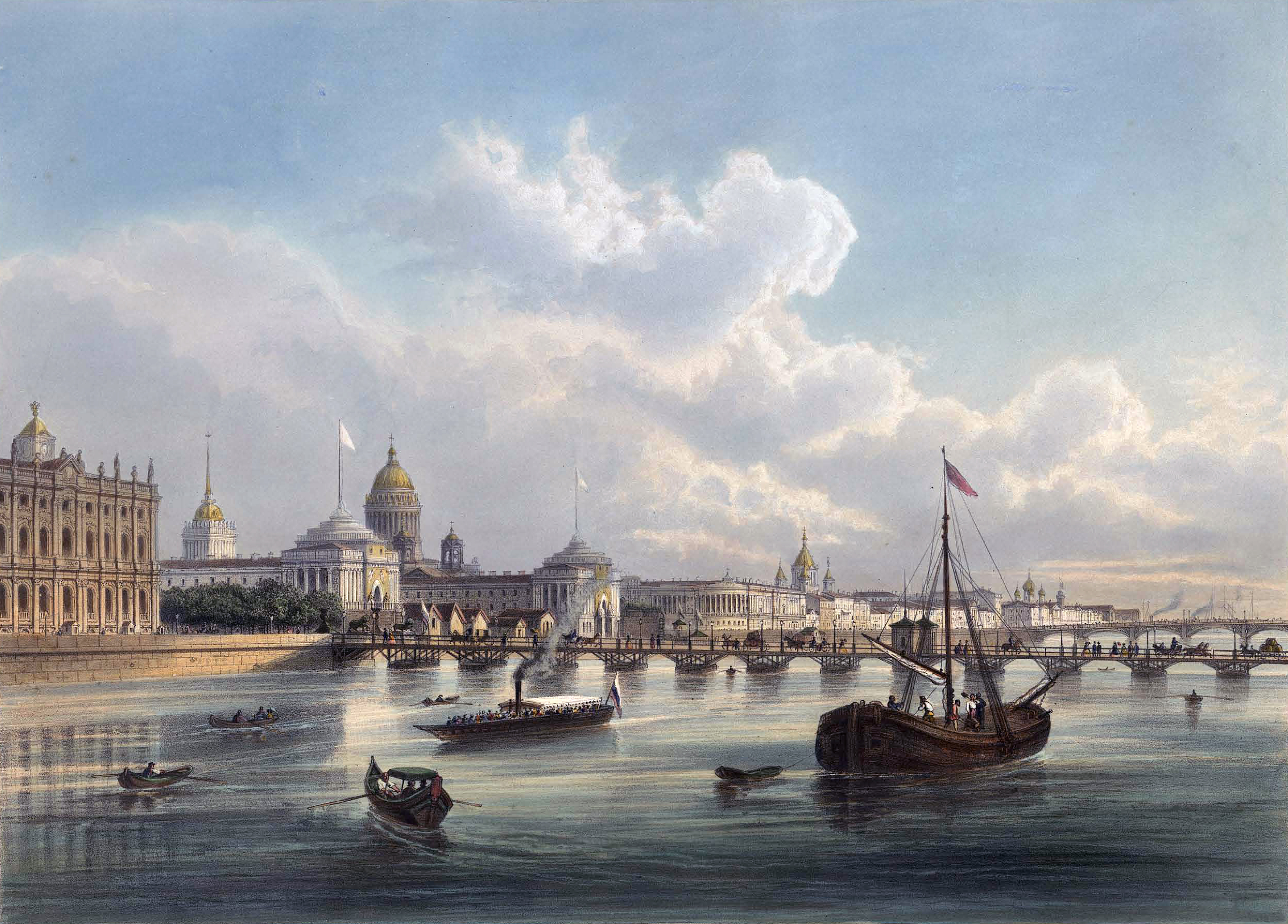 The Palace bridge in St. Petersburg in the 19th century, lithograph after a drawing by Charlemagne